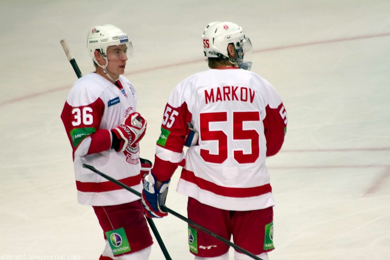 Vitiaz Chekhov players Vadim Berdnikov (at left) and Danny Markov during KHL game against Amur Khabarovsk on October 14, 2011.